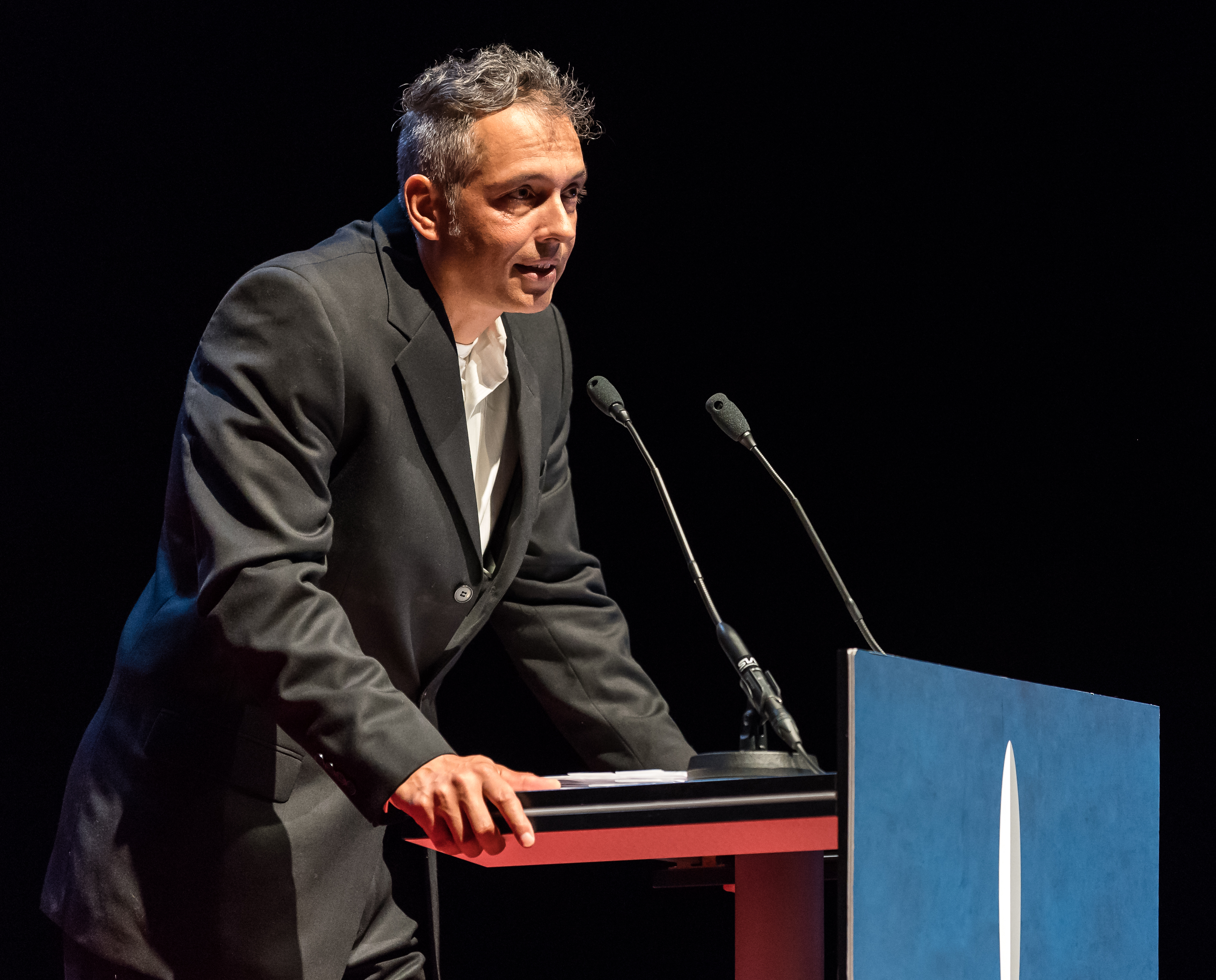 Hawk Ostby, Producer of Expanse, Winner for Best Dramatic Presentation, Short Form, at the Hugo Awards Ceremony, Worldcon.